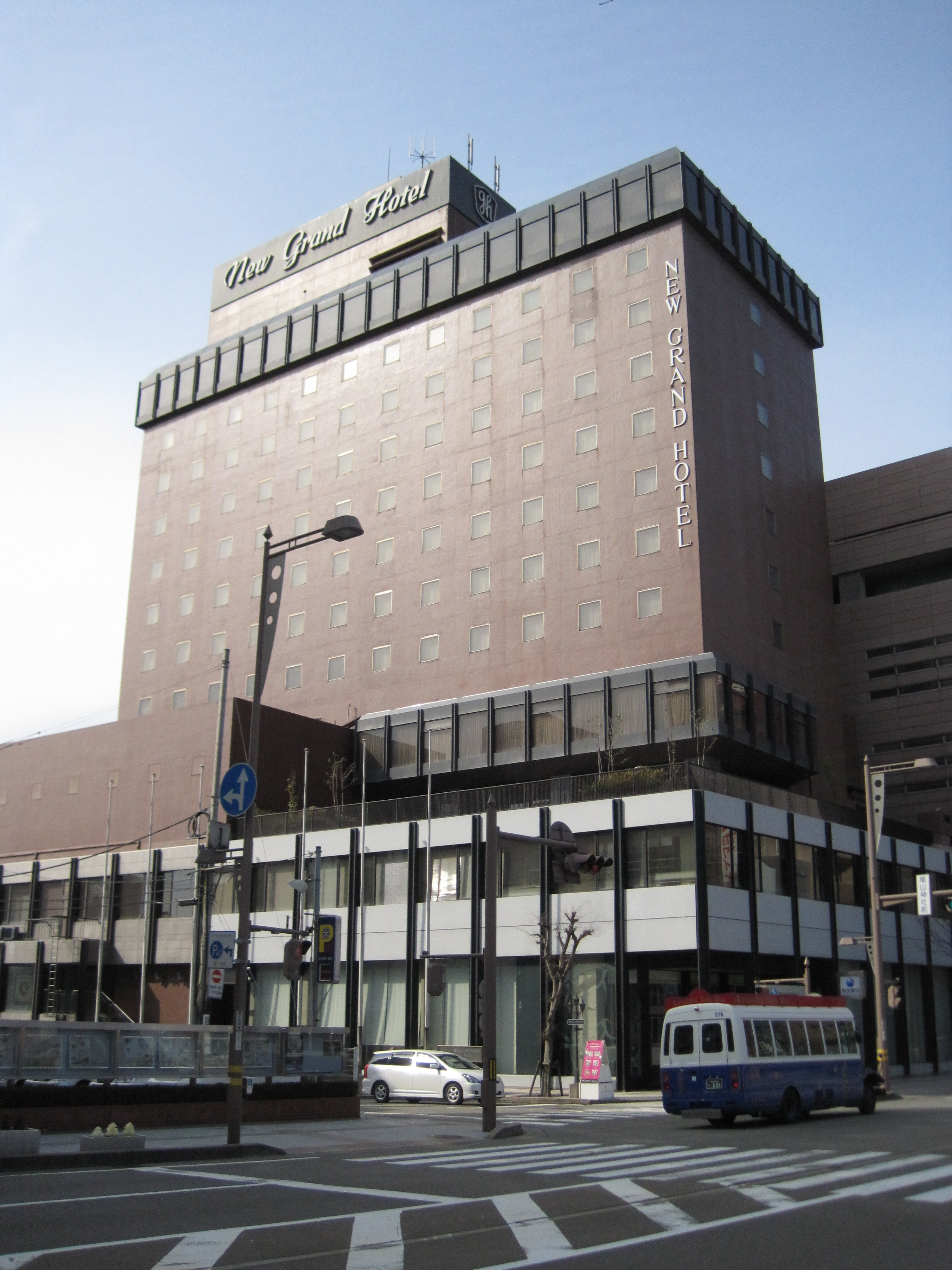 Kanazawa Newgrand Hotel(Kanazawa city,Ishikawa prefecture)